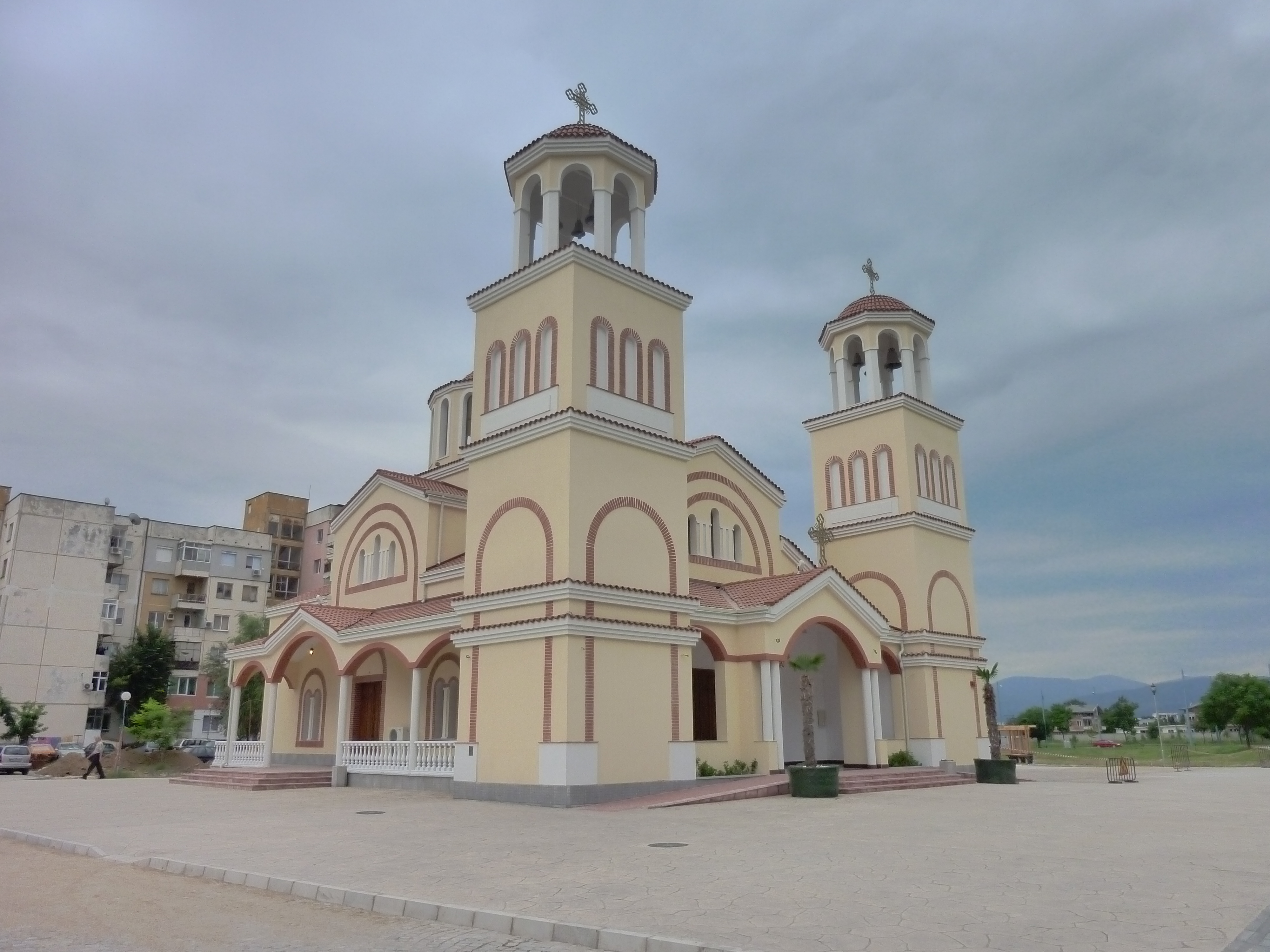 Preobrajenie Gospodne chirch in district Trakiya, Plovdiv